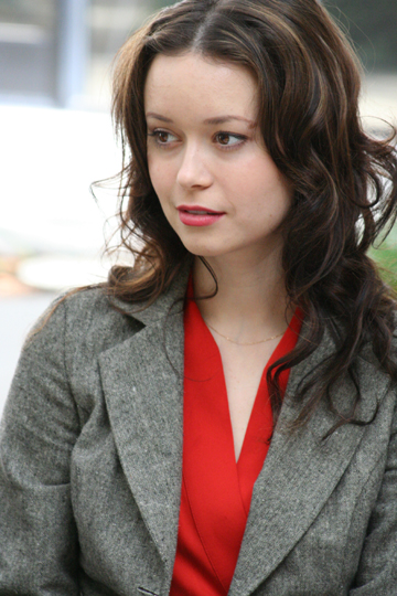 Summer Glau (2005 Serenity Flanvention)